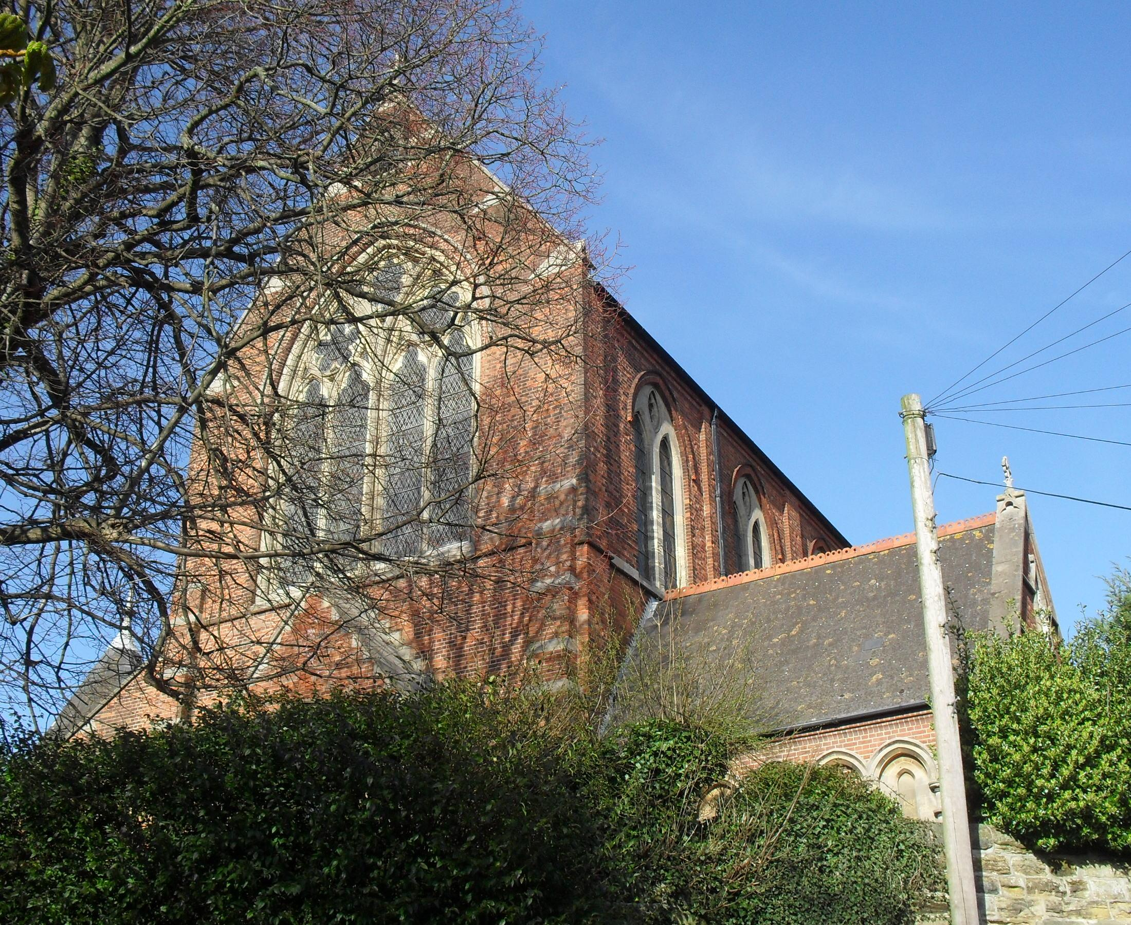 View from the southwest of St Peter's Church, St Peter's Road, Bohemia, Hastings, East Sussex, England. Designed by James Brooks and completed by building firm John Howell & Son of Hastings in 1885. Listed at Grade II* by English Heritage (NHLE Code 1353235)